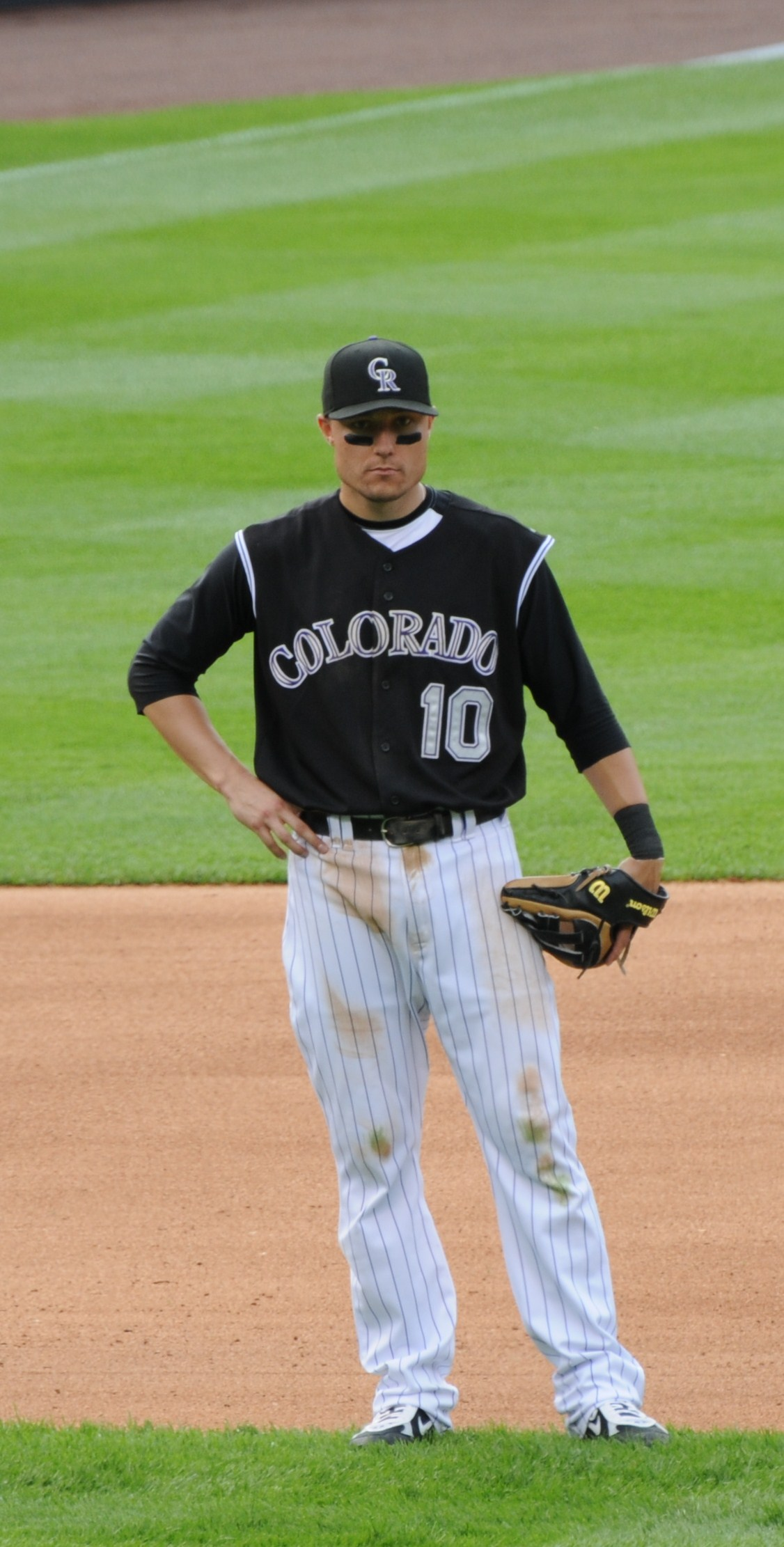 Description own work DateSourceI created this work entirely by myself.AuthorOnetwo1 (talk) 16:39, 8 August 2008 . . Onetwo1 . . 1,126×2,222 (382 KB) own work